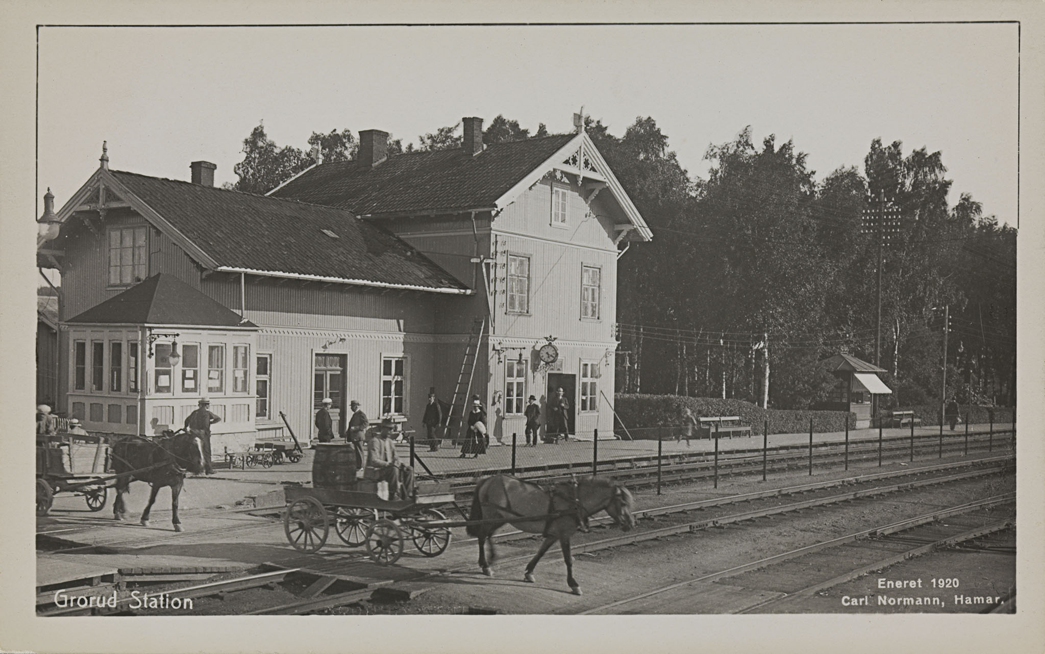 Tittel / Title: Grorud Station Beskrivelse / Description: Postkort. Dato / Date: ca 1920 Fotograf / Photographer: Carl Normann (1886-1960) Utgiver / Publisher: Carl Normann (Hamar) Sted / Place: Oslo, Grorud, Grorud stasjon Eier / Owner Institution: Nasjonalbiblioteket / National Library of Norway Lenke / Link: Bildesignatur / Image Number: bldsa_PK03033